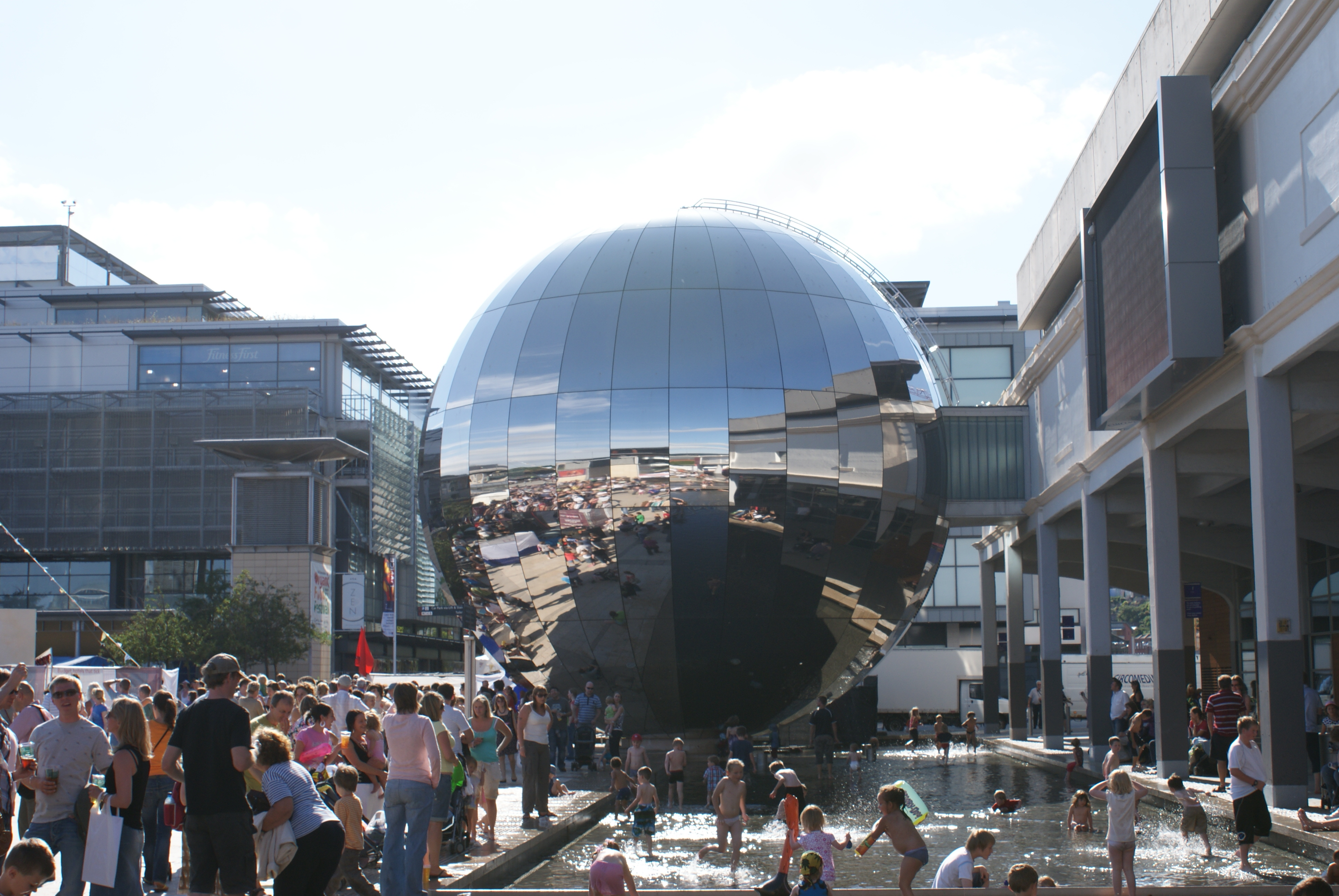 The Planetarium (a large stainless-steel sphere), and people outside of "At-Bristol" at the Bristol Harbour Festival in 2008.